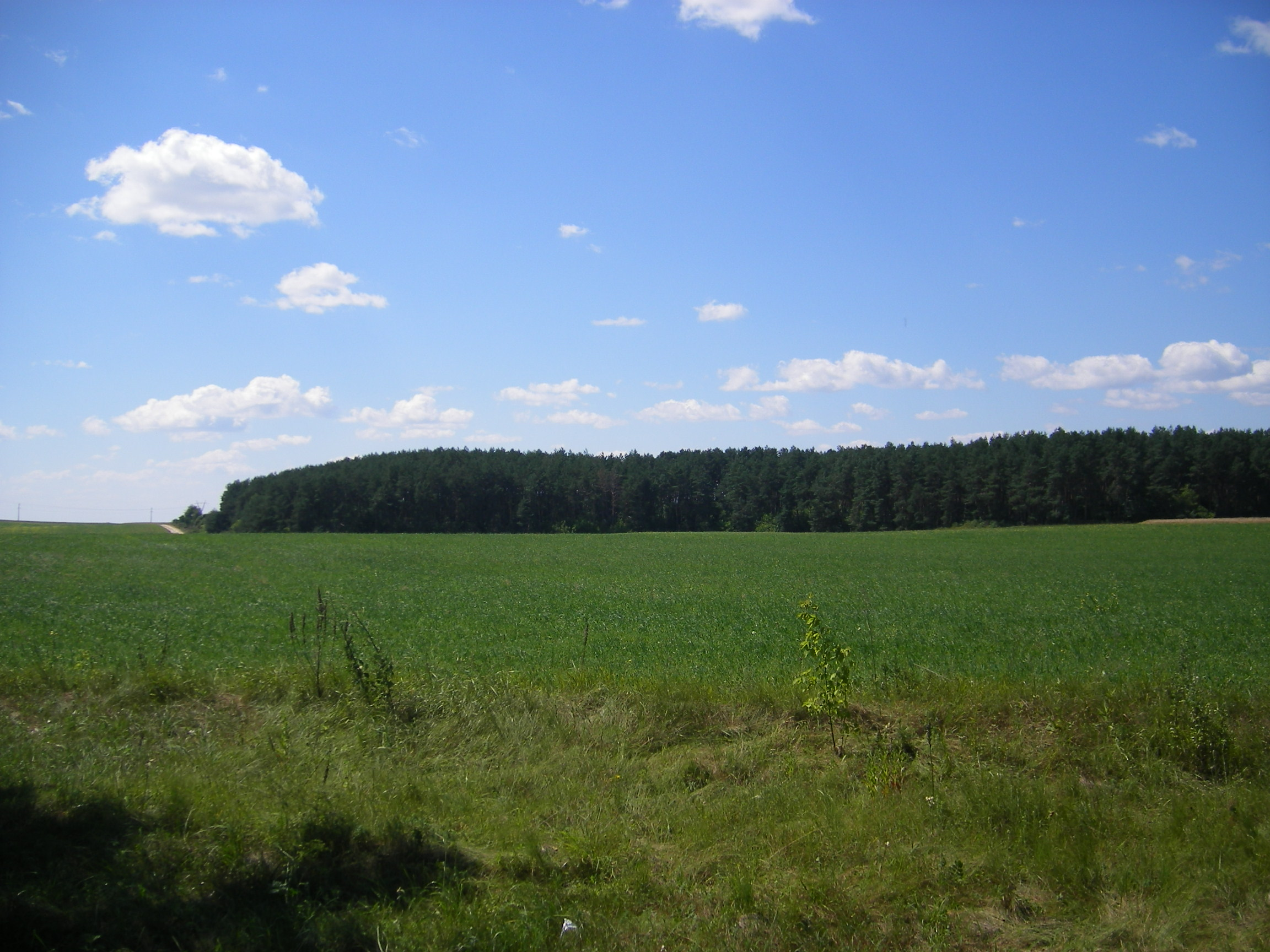 First big woods near Olyka (Kivertsy Raion)